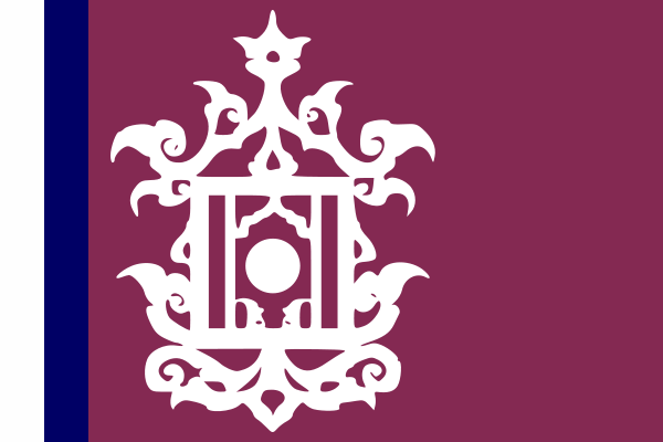 Sultan of Sulu official flag